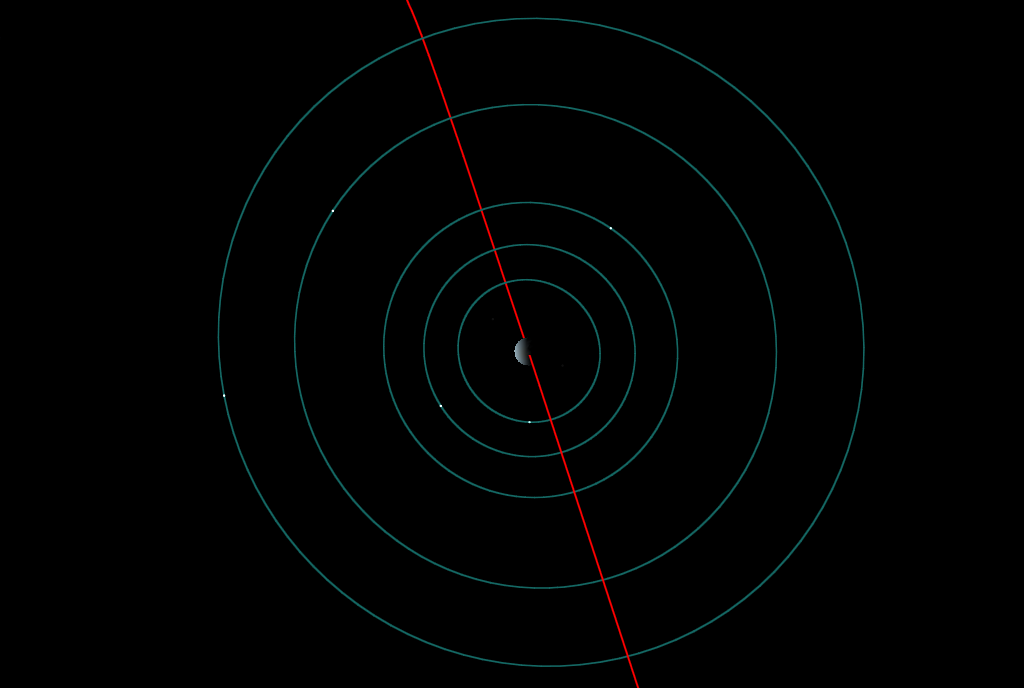 The Uranian system. From centre out: Uranus, Miranda, Ariel, Umbriel, Titania, Oberon. The other moons are not visible from the "camera" perspective.